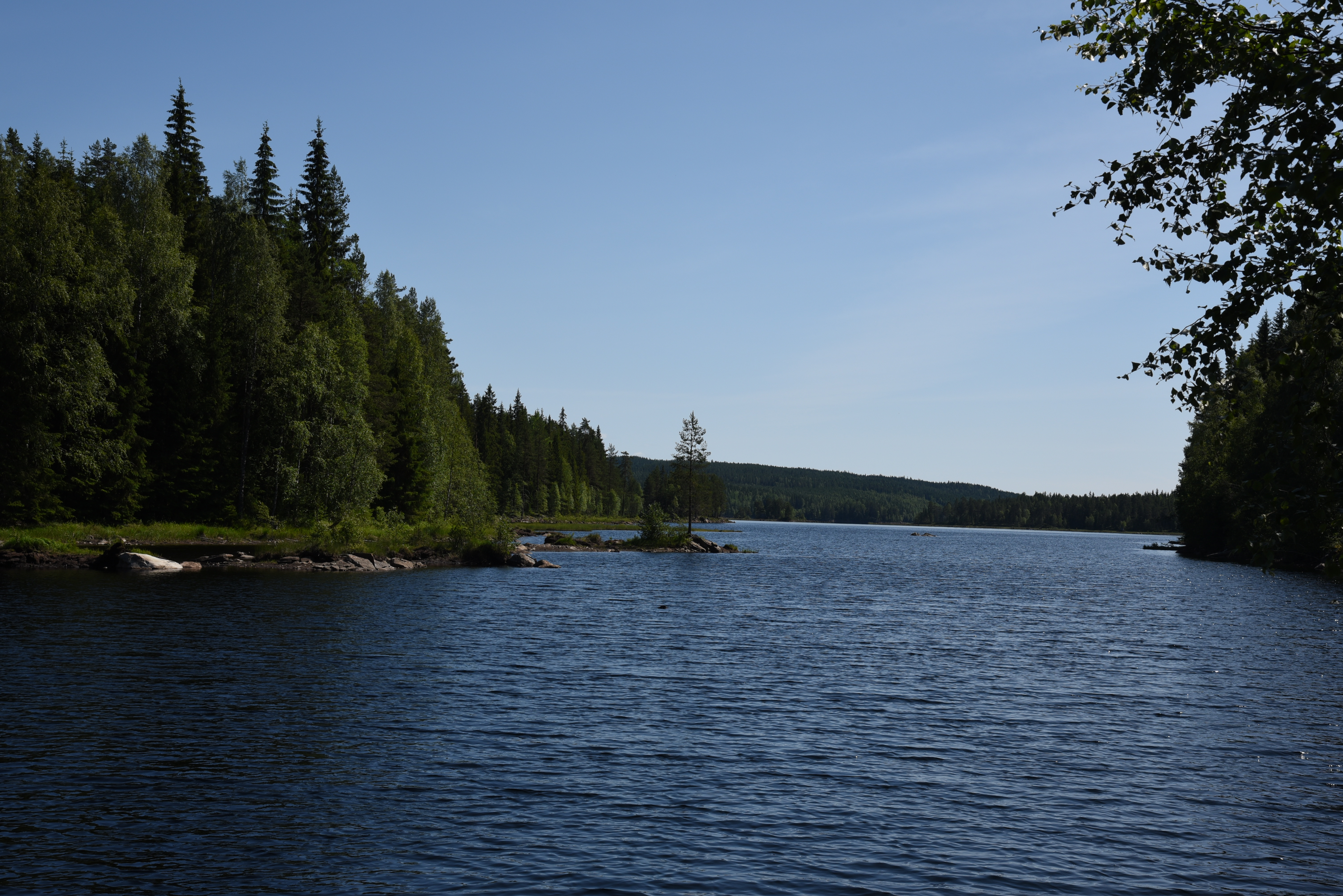 The lake Lomsen in Torsby municipality, Värmland county, Sweden. Seen from the parking at Ritamäki finngård.